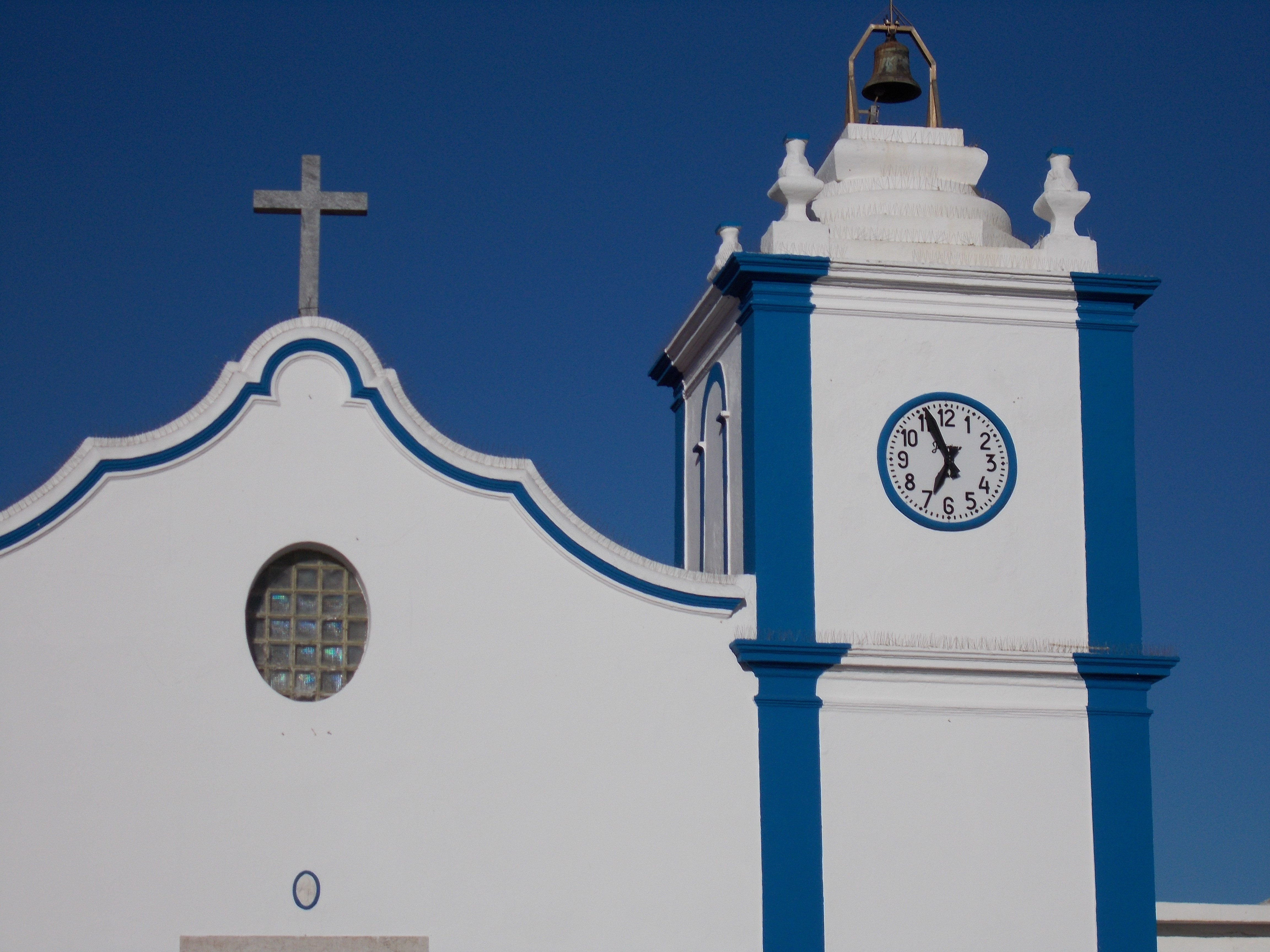 Igreja de Nossa Senhora da Graça (Church of Our Lady of Grace) in the town of Vila Nova De Milfontes